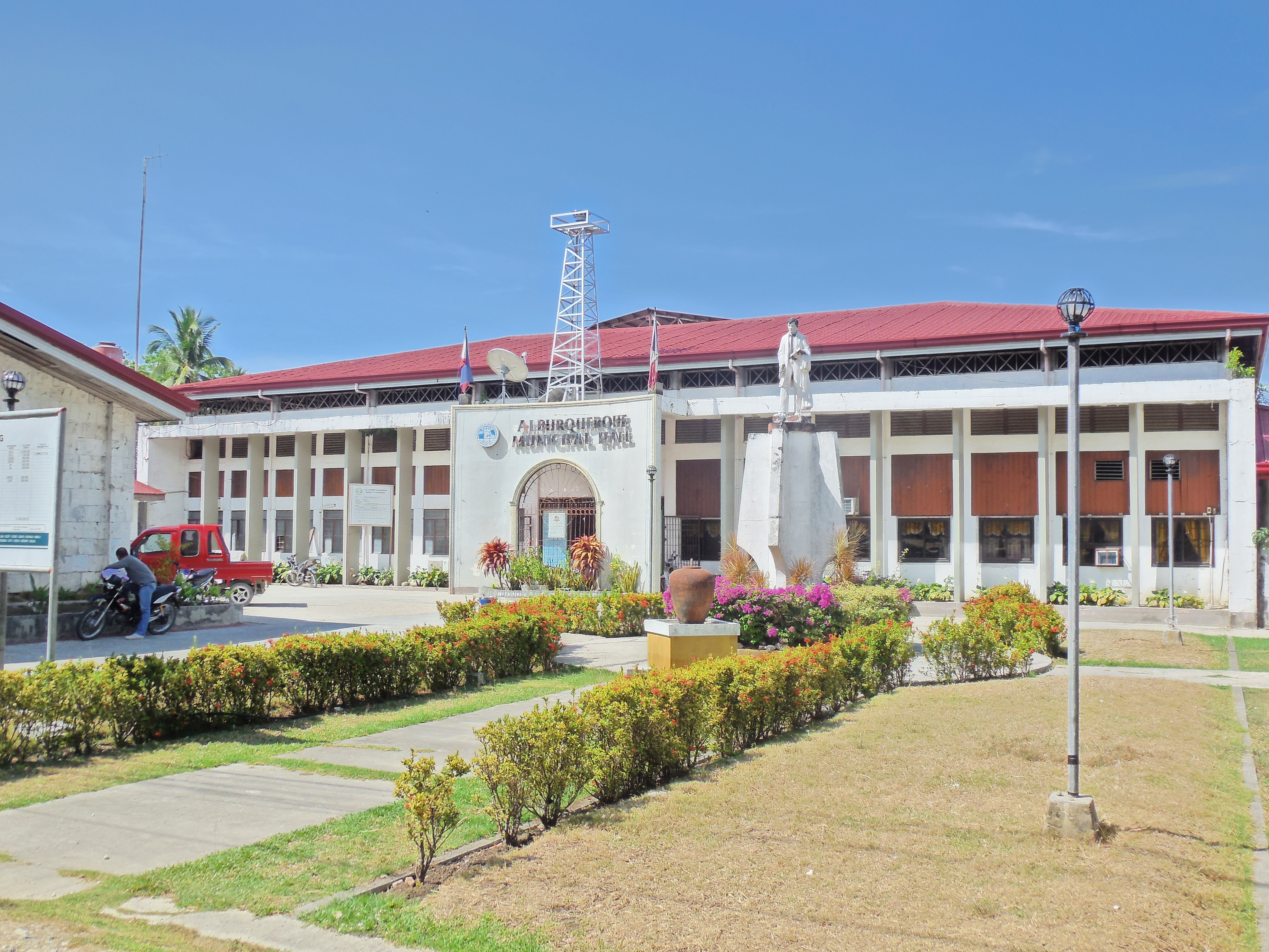 The municipal hall of Alburquerque town in Bohol. Photo taken three years after the 2013 Bohol Earthquake.